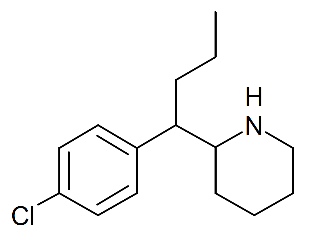 Structure of 2-[1-(4-chlorophenyl)butyl]piperidine